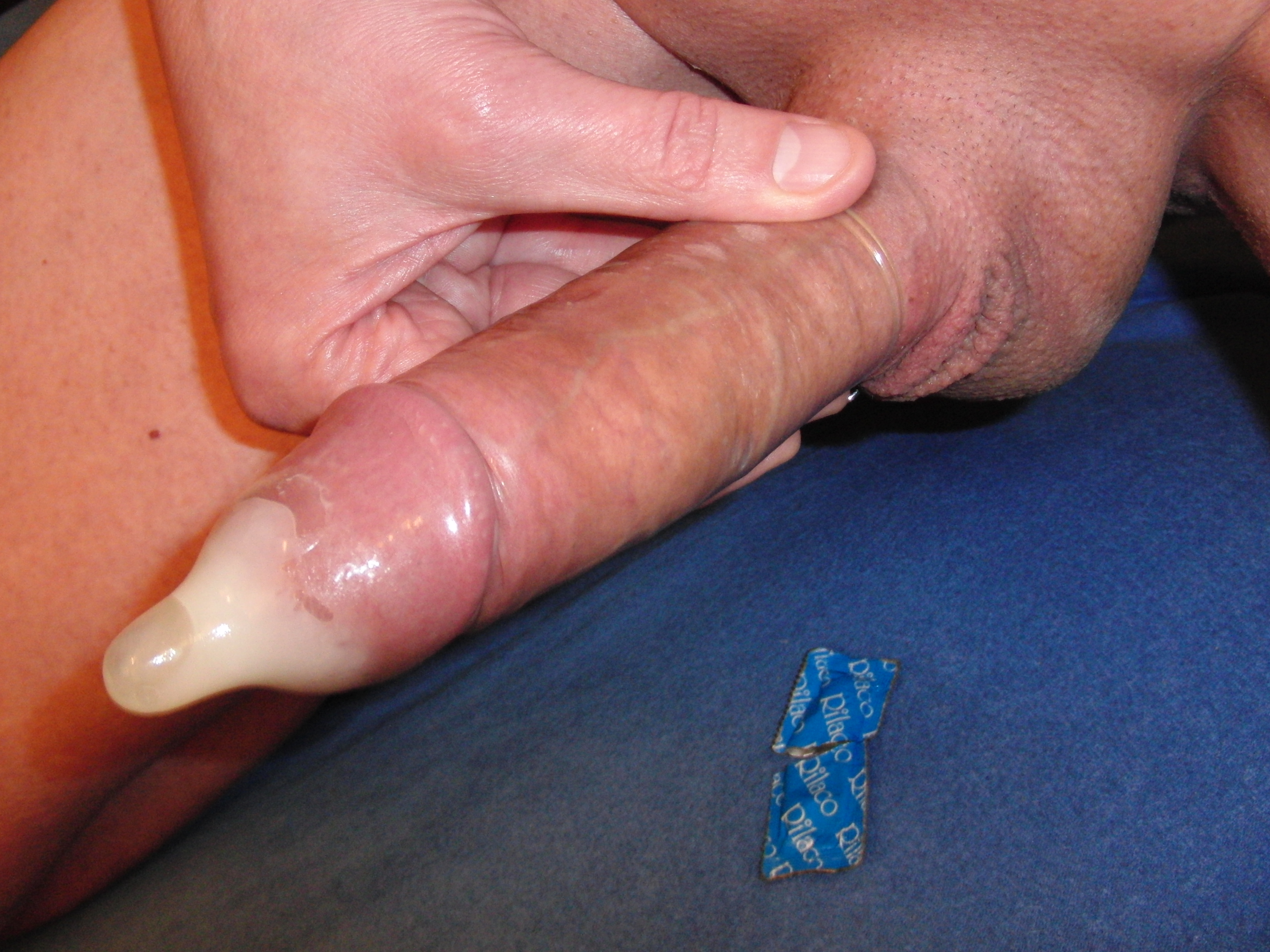 Penis in condom directly after ejaculation with semen filled reservoir